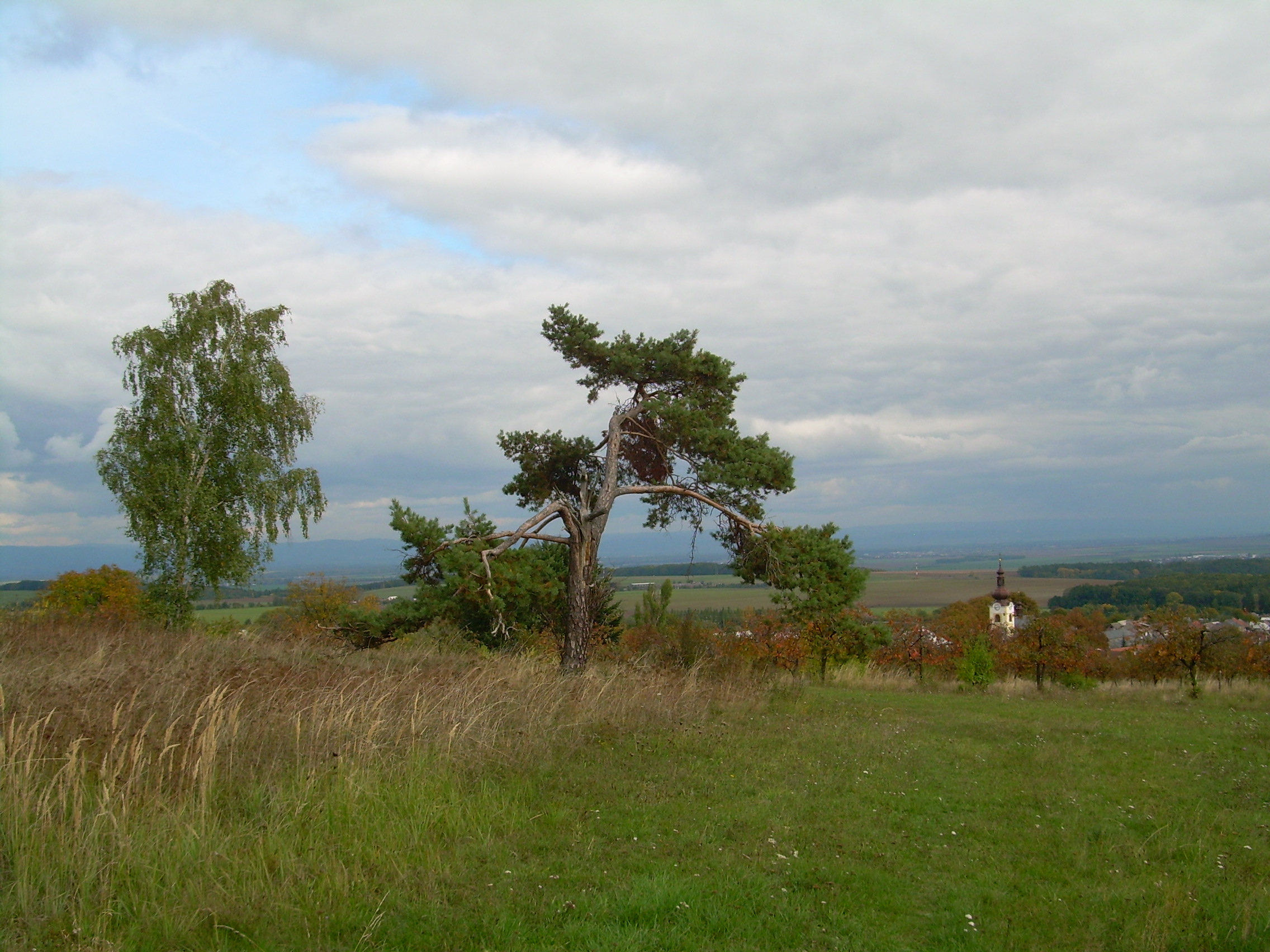 view of the village